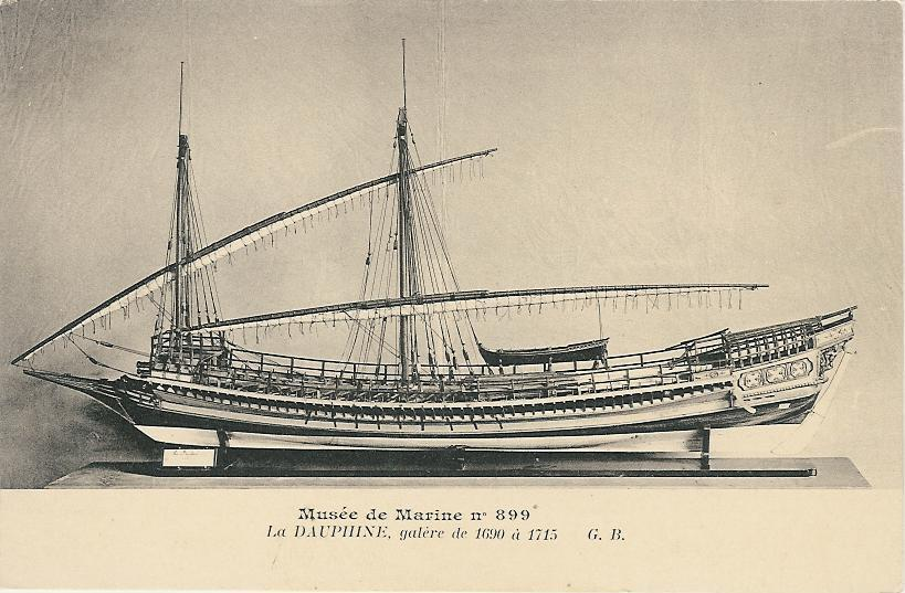 The Dauphine, ordniary galley